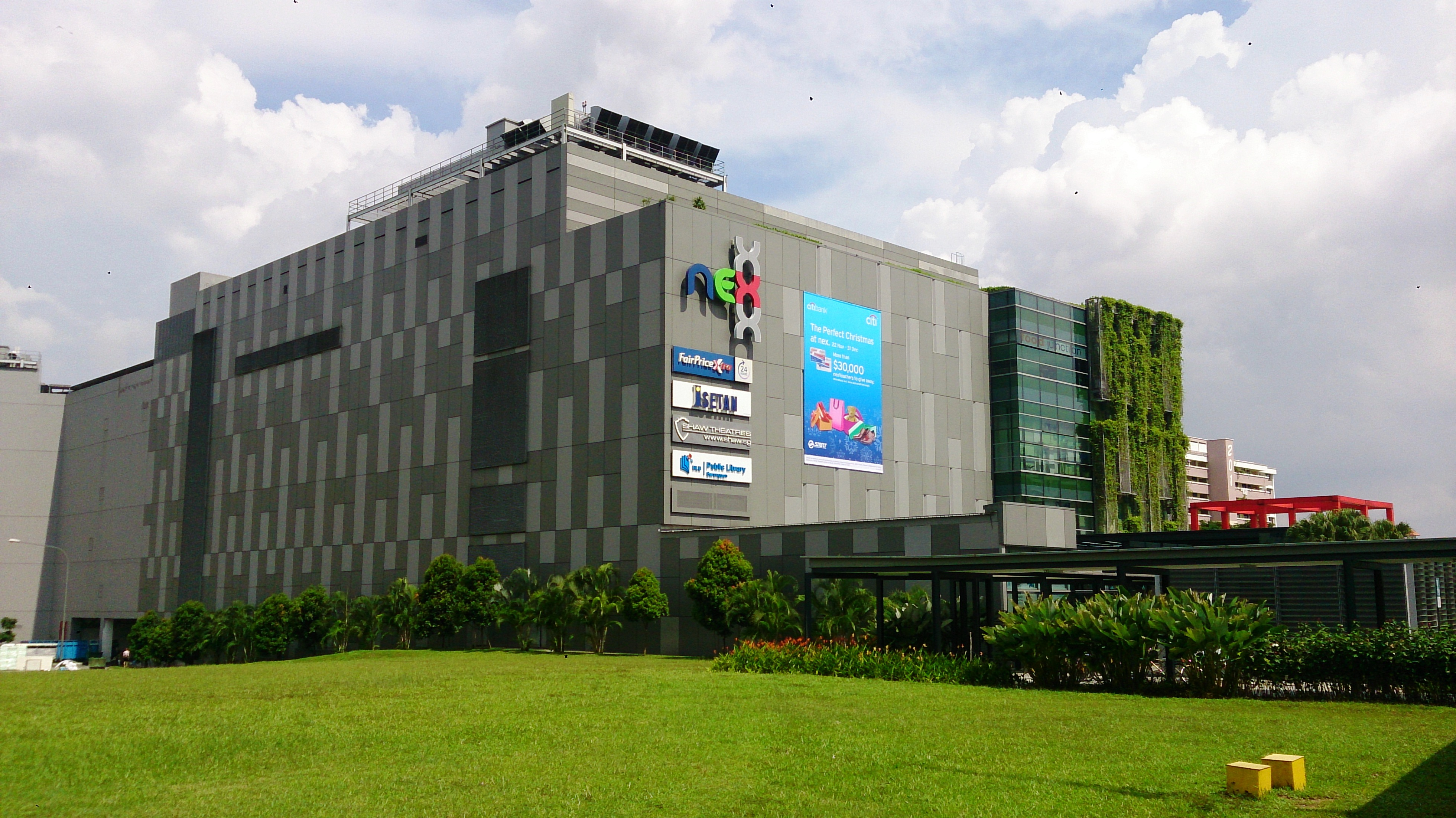 nex shopping center at Serangoon, Singapore